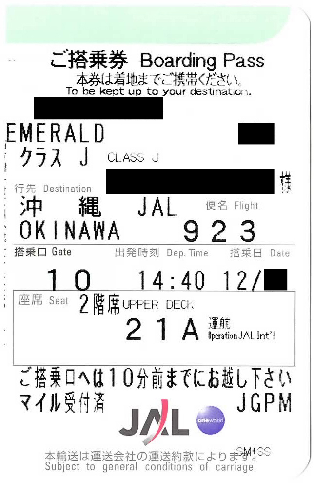 Boarding pass of Japan Airlines Class J, with "JGPM" (JAL Global Club Premier Member) printed in the bottom right corner